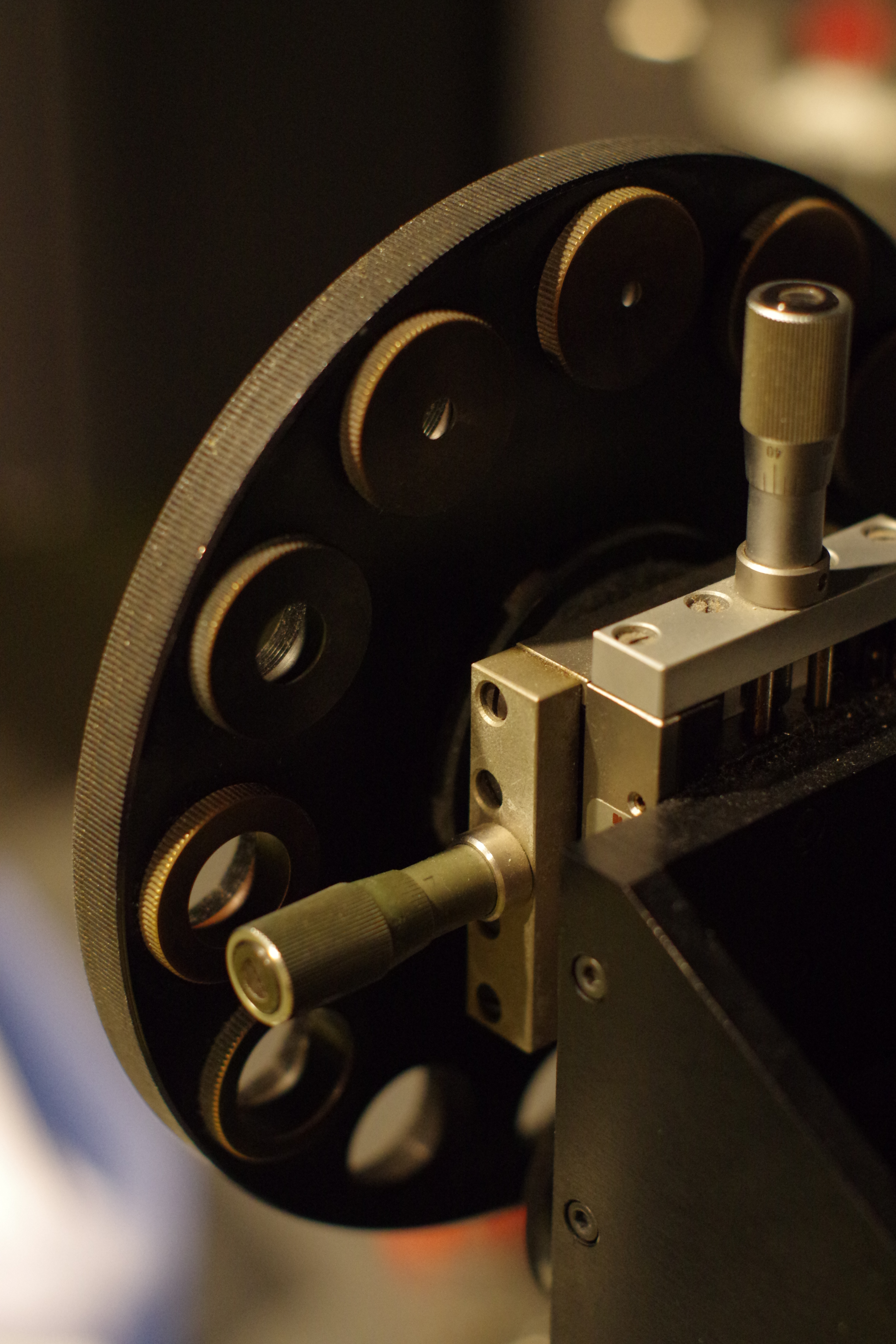 Serial of optical holes used as diaphragmas for the light in a Michelson interferometer